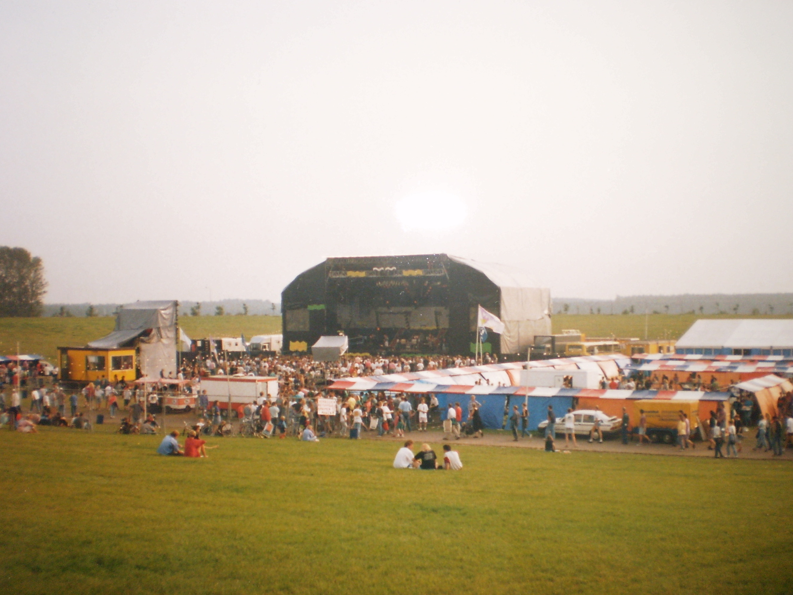 YfC's Flevo Totaal music festival, Biddinghuizen